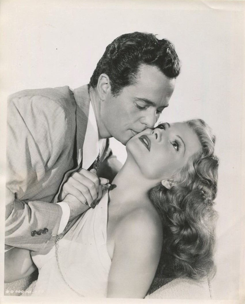 Rita Hayworth and Larry Parks. Promotion photo for Down to Earth, 1947